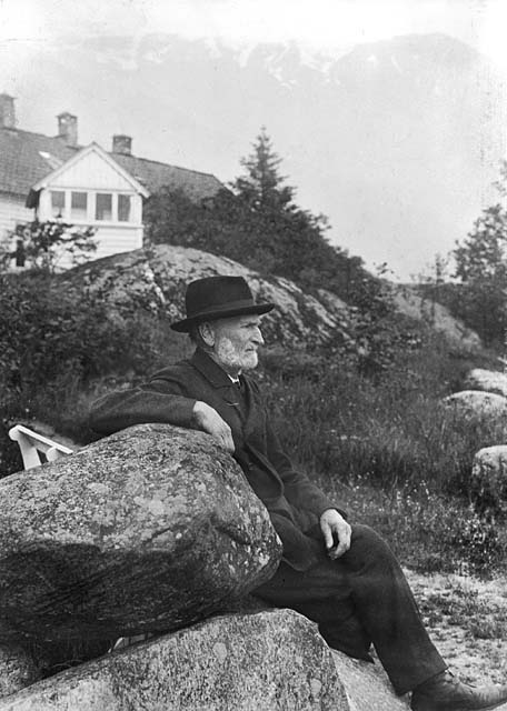 Knud Knudsen selfportrait